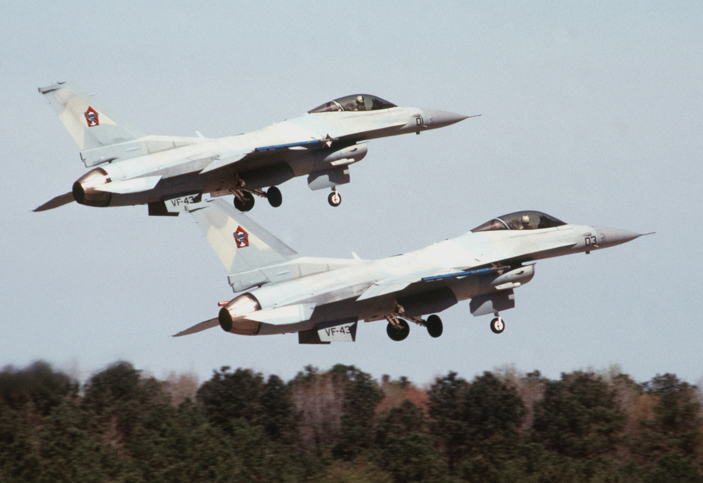 Two U.S. Navy General Dynamics F-16N Viper of Fighter Squadron 43 (VF-43) take off from Naval Air Station Oceana, Virginia (USA), in 1990.